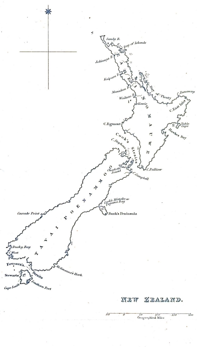 Map of New Zealand